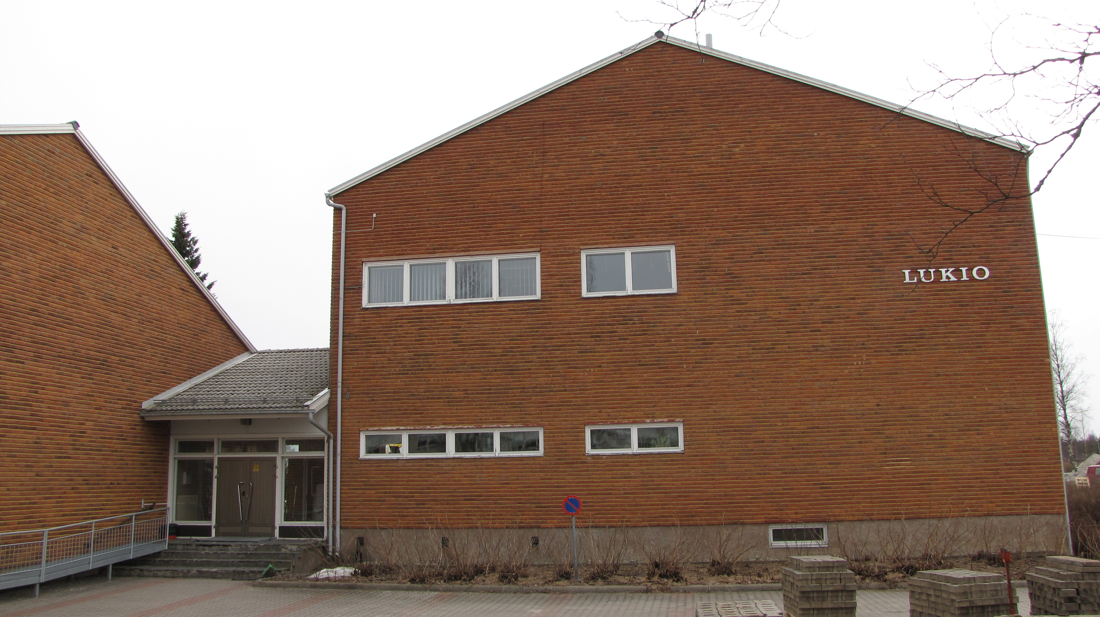 Kauhajoki Senior High School ("Kauhajoen lukio" in Finnish) in Kauhajoki, Finland.